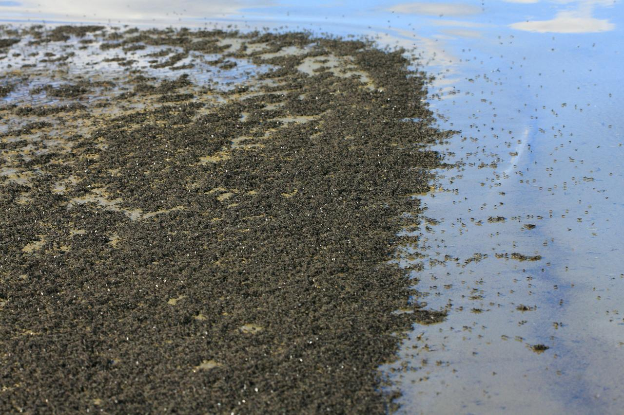 Dense population of Ephydra hians, a brine fly that lives in huge populations at Mono Lake, California, USA Original Caption: See that pile of coffee grounds along the lake? Actually each "particle" is a brine fly, one of the key parts of Mono lake's food chain. They don't bite or do anything annoying, but it still seems odd to willingly approach so many flies.